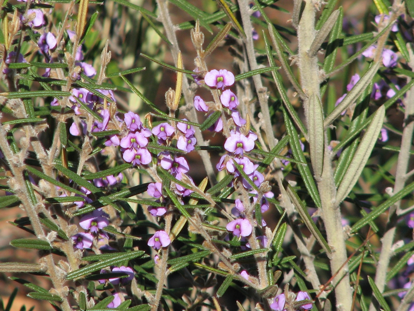 Hovea pannosa (cultivated, labelled) Royal Botanic Gardens, Melbourne, Australia